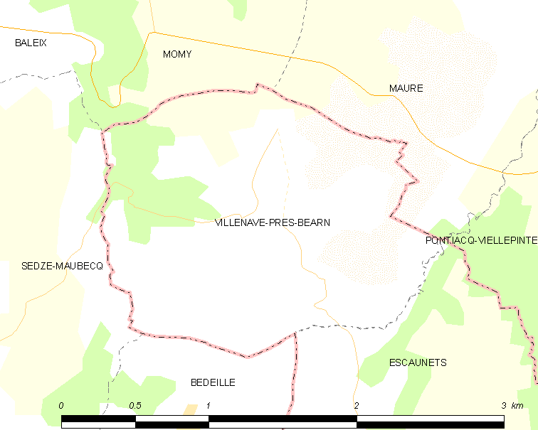 Map of French municipality